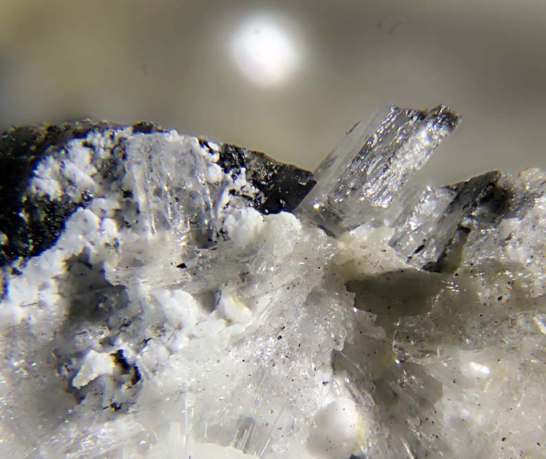 Group of colourless rösslerite crystals on white brassite from the famous locality of Jachymov (Bohemia, Czech Republic).